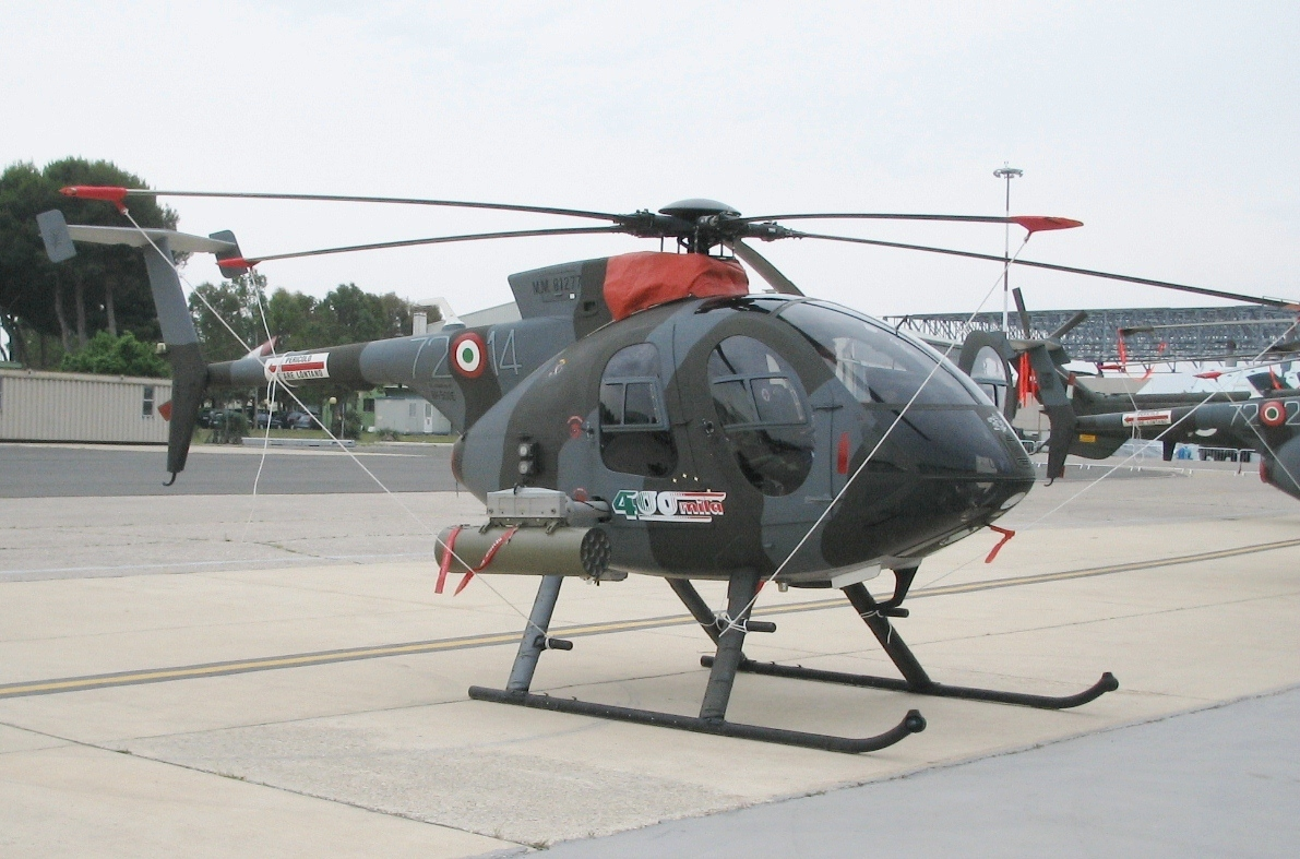 Breda Nardi NH-500E. MD 500 Italian version license built for Italian Air Force